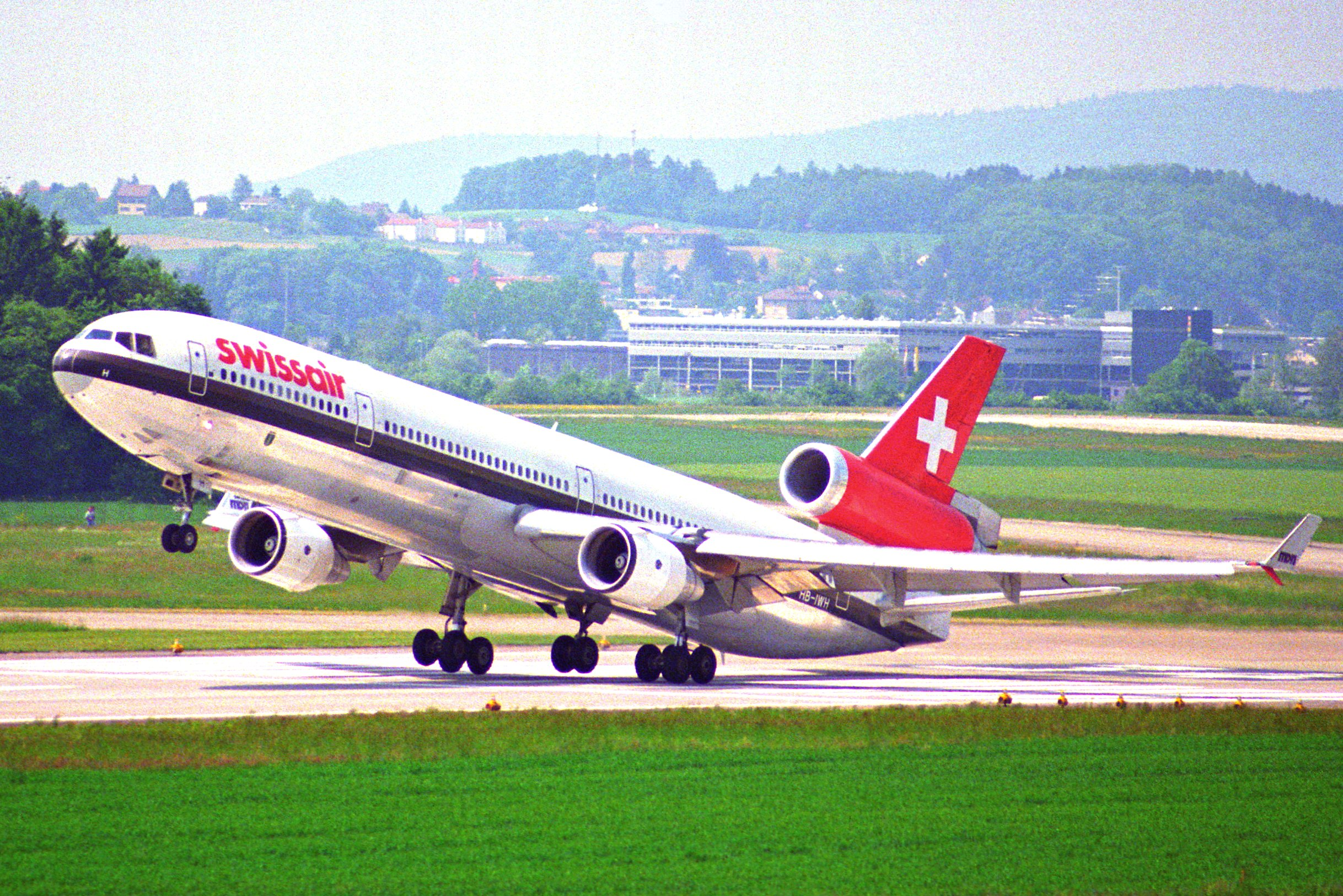 Swissair MD-11; HB-IWH@ZRH;25.05.1995